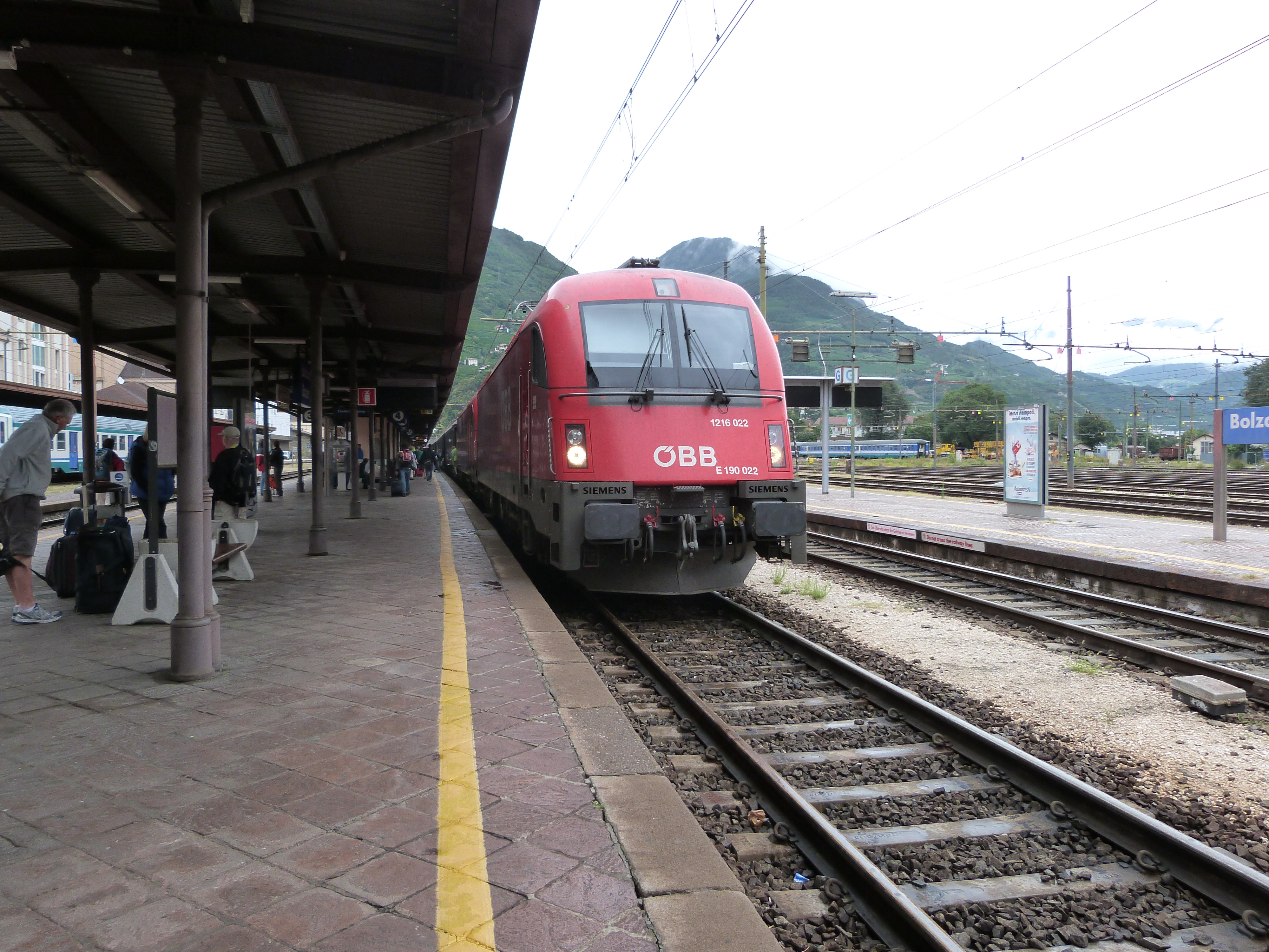 E' un treno a Bolzano